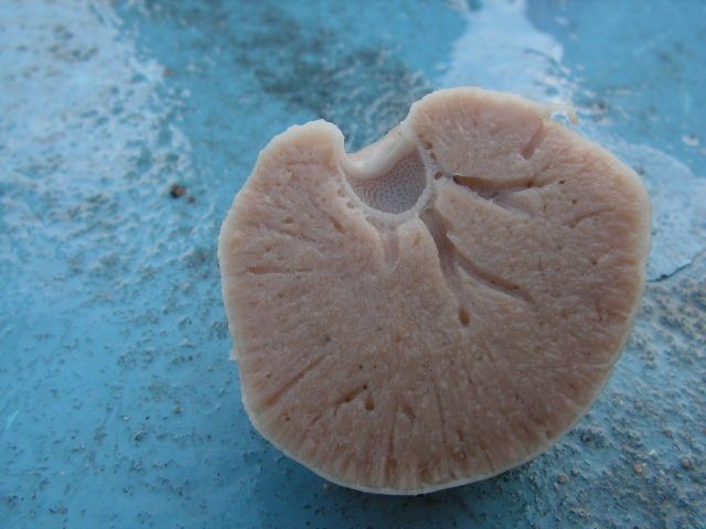 Section in the demosponge Geodia barretti, collected in the Korsfjord (Norway). One can see canals and the preoscule with uniporal oscules inside.